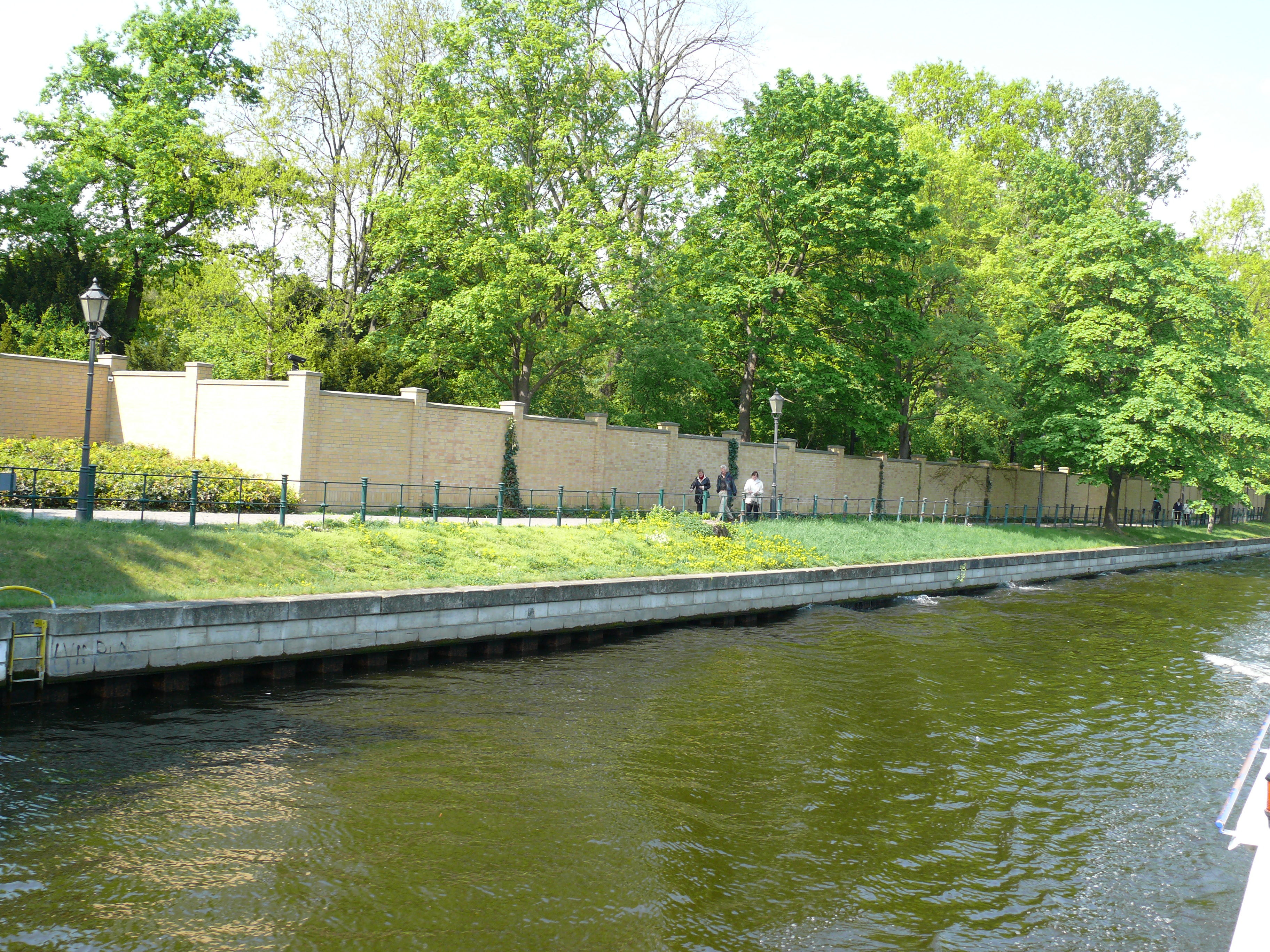 Berlin-Tiergarten Bellevue-Ufer